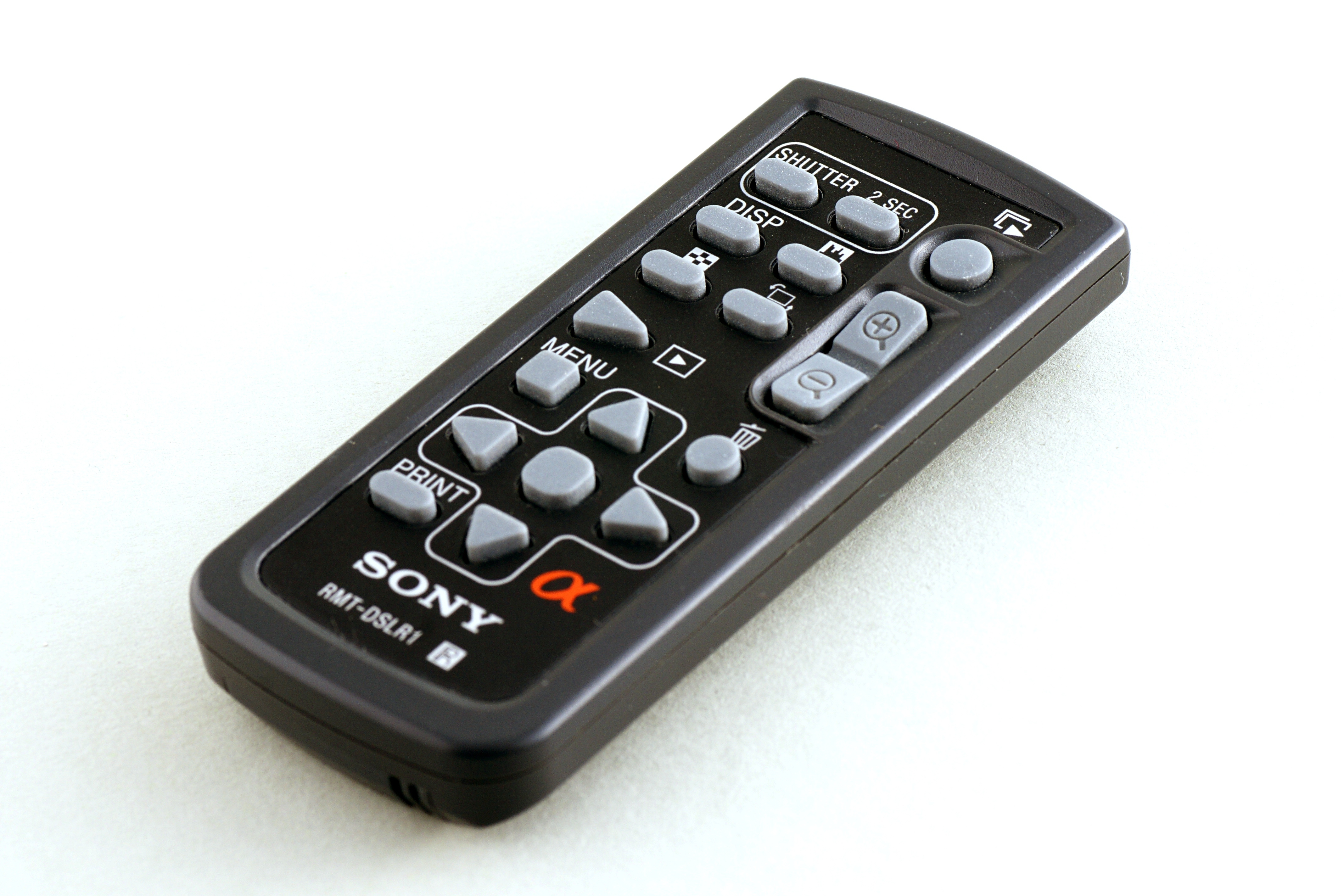 Sony RMT-DSLR1 infrared camera remote.